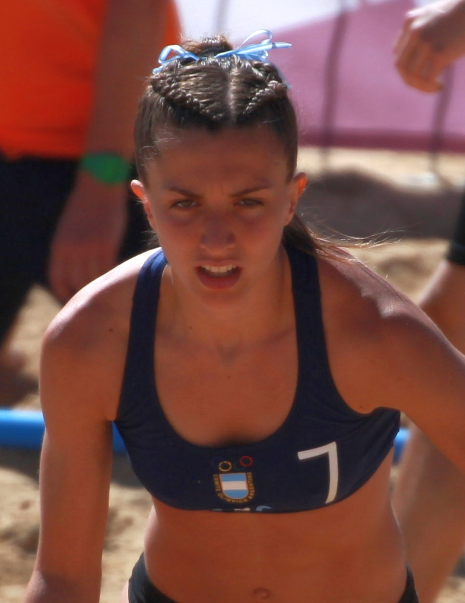 Beach handball at the 2018 Summer Youth Olympics at 10 October 2018 – Girls Preliminary Round Group B – Netherlands-Argentina 2:0